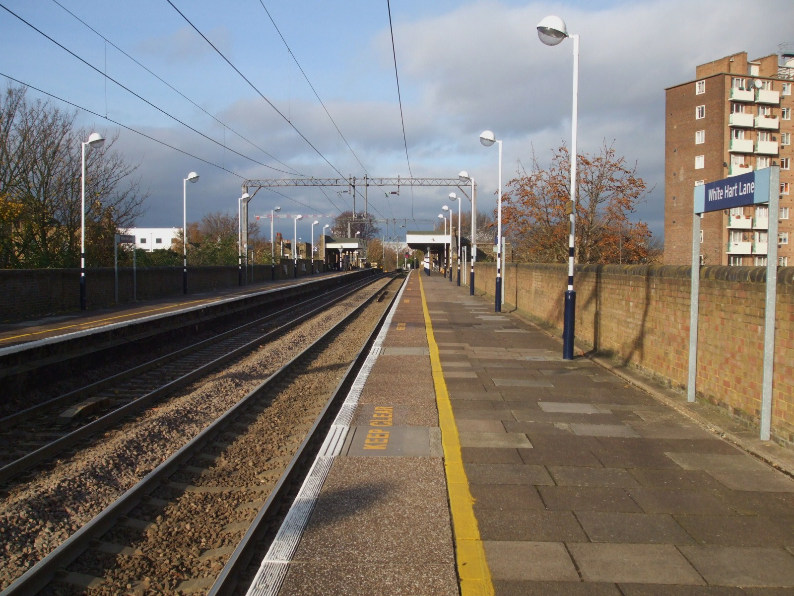 White Hart Lane station looking north